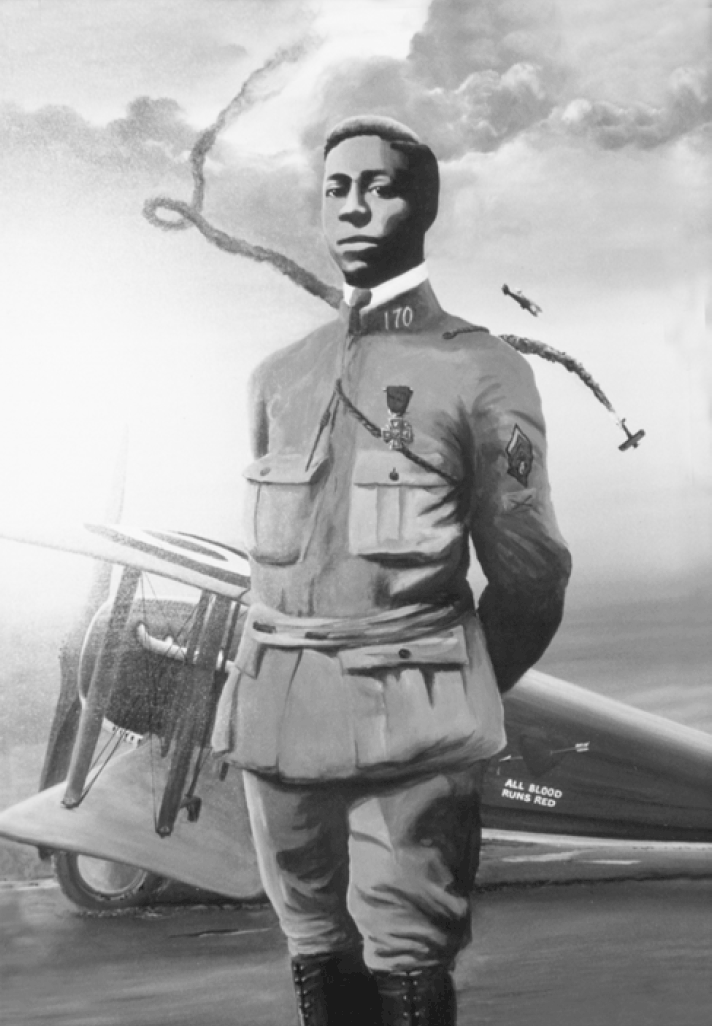 He was one of the very few Americans to fly in World War I